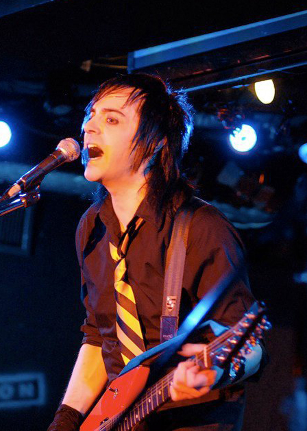 The Dead Stars On Hollywood's Kneel Cohn performing at Crash Mansion April 18, 2010.